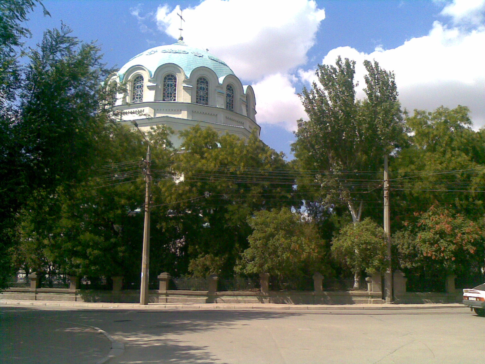 Christian Orthodox Church in Eupatoria, Crimea, Ukraine